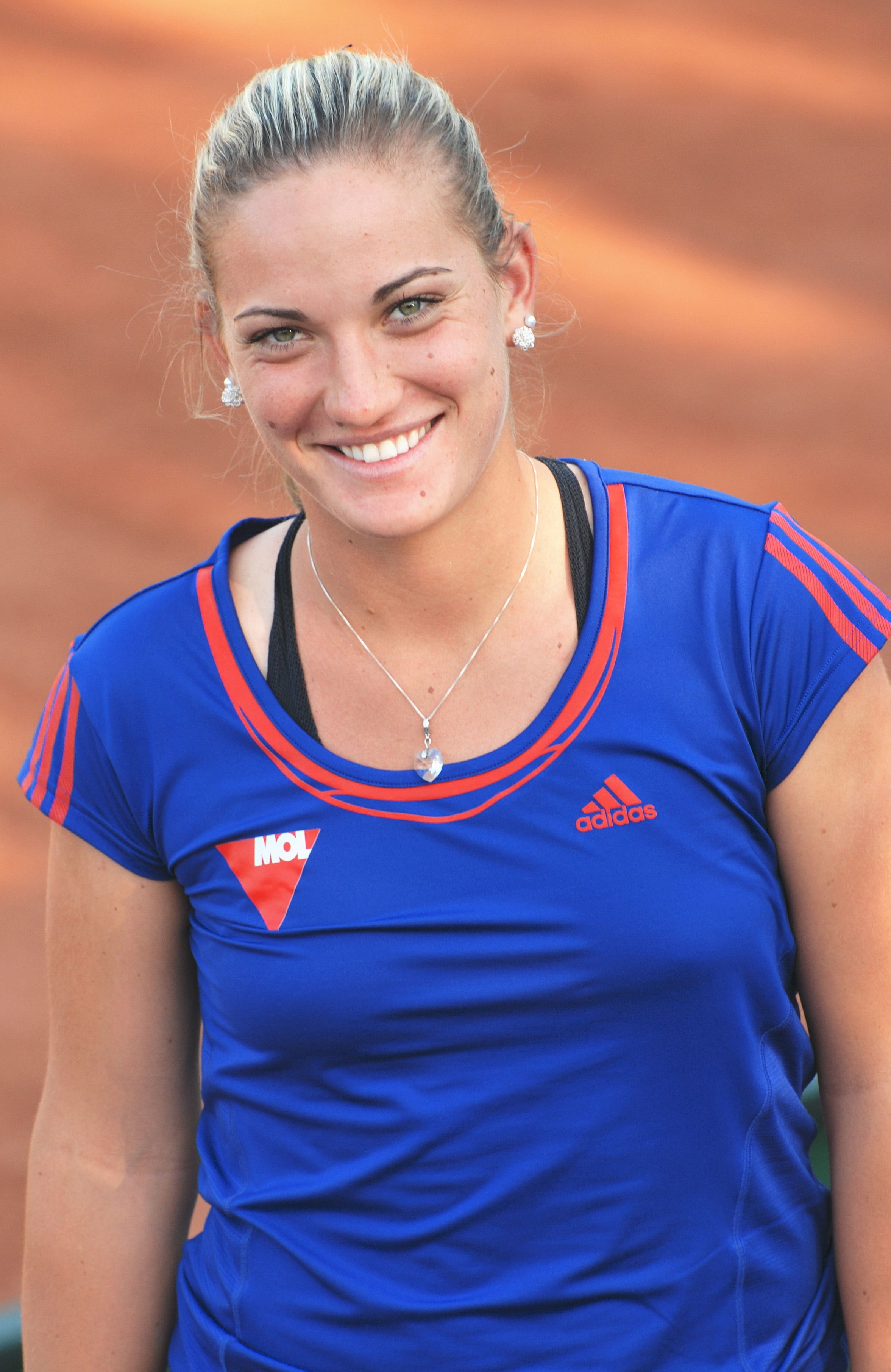 Tímea Babos at Budapest Grand Prix, 2012